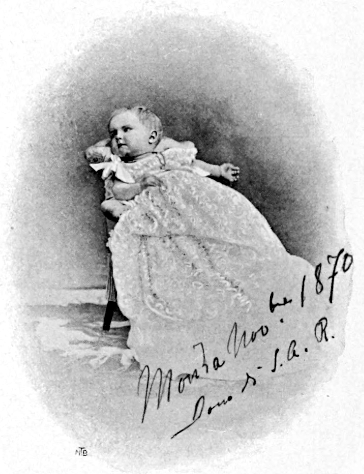 Image from book: Leopoldo Pullè, Patria Esercito Re, Ulrico Hoepli, Milan, 1908. - Victor Emmanuel III of Italy